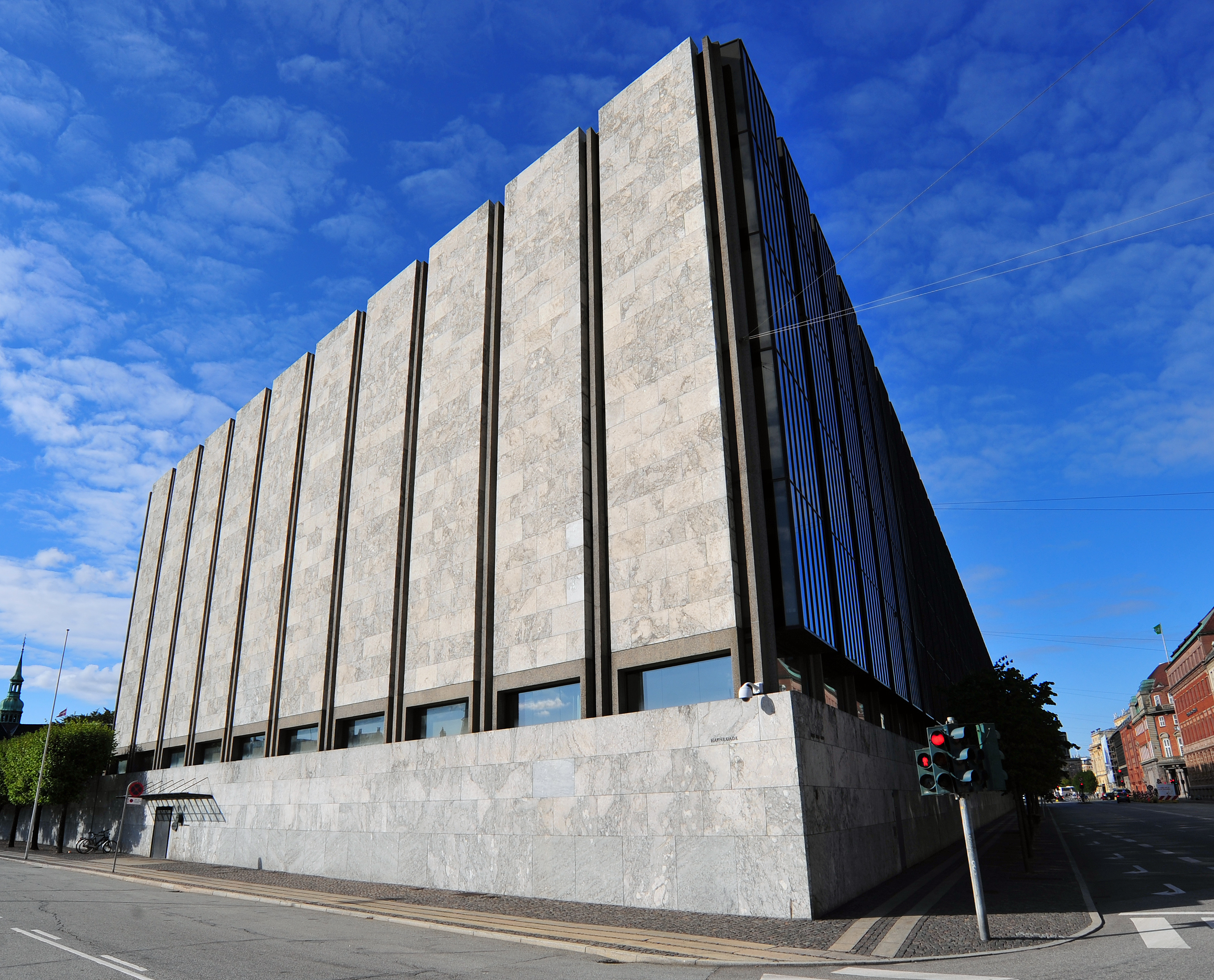 Picture of the Danish Treasury - Danmarks Nationalbank.